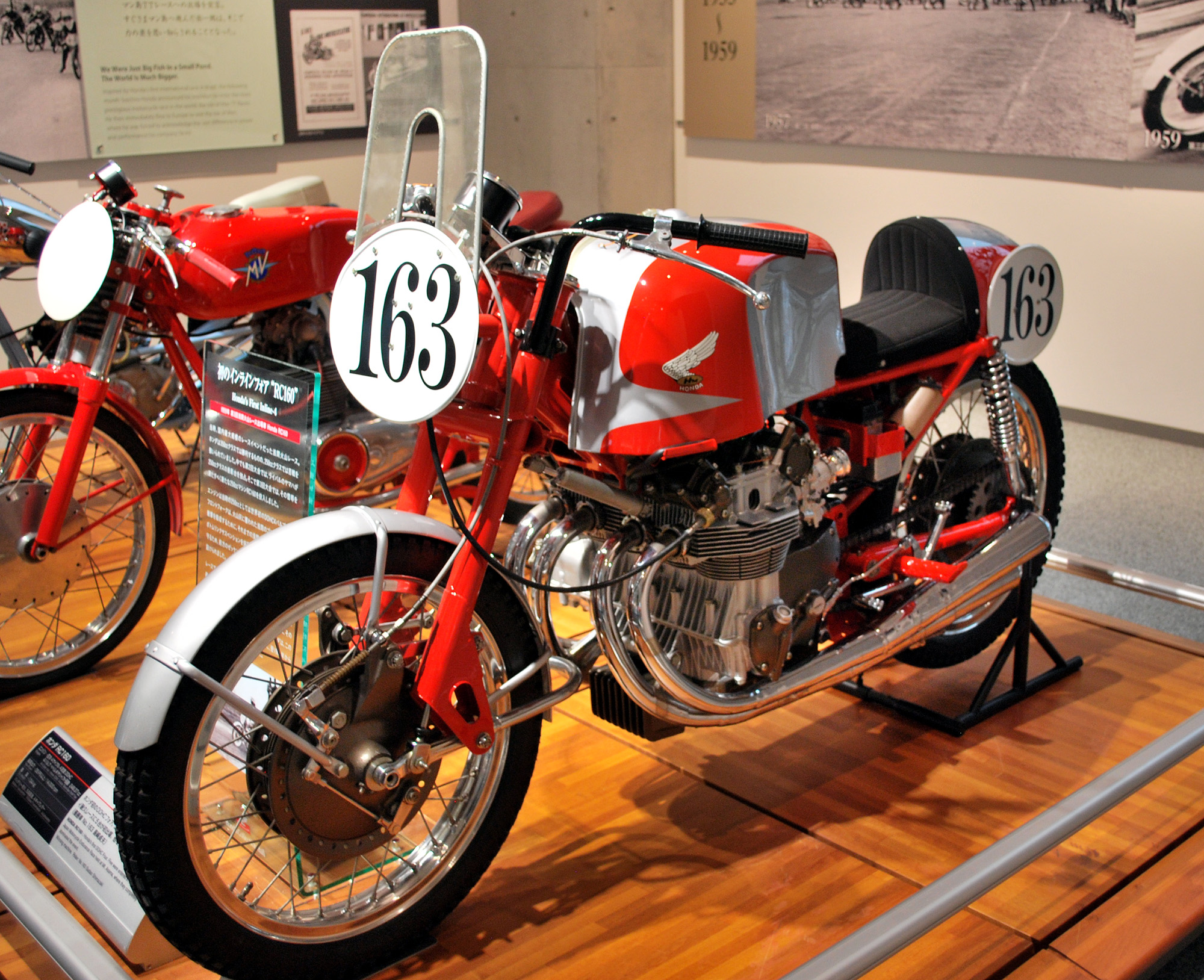 Honda RC160 (1959), Honda's first DOHC Four.